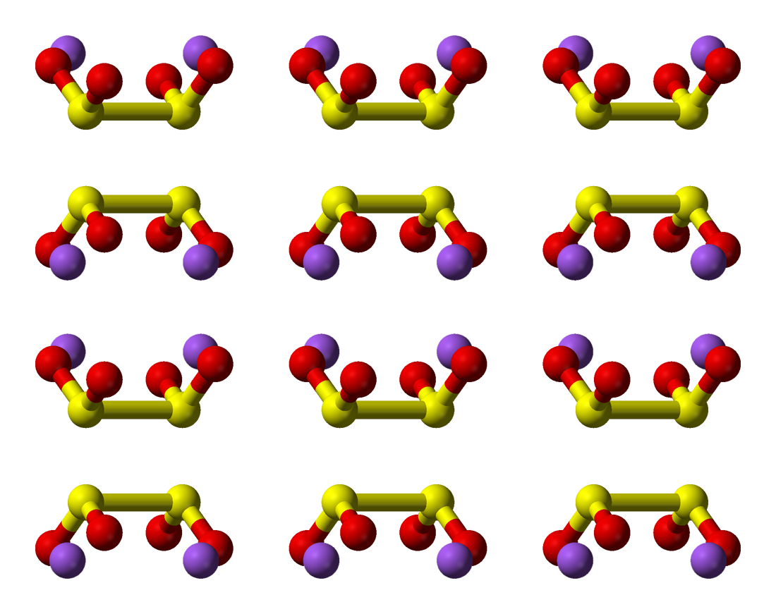 Space-filling model of part of the crystal structure of sodium dithionite, Na2[S2O4]. X-ray crystallographic data from J. Chem. Crystallogr. (1992) 22, 291-301. Model constructed in CrystalMaker 8.1. Image generated in Accelrys DS Visualizer.